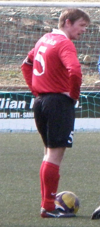 Øssur Hansen is a Faroese football player. He is captain for his team B68 Toftir, which plays in Vodafonedeildin, which is the Faroese premier league. Øssur Hansen played for the Faroe Islands national team; in the period 1992-2002 he played 51 matches and scored 2 goals. This photo was taken on 18 April 2010 in the match against FC Suðuroy in Eiðinum stadium in Vágur. Føroyskt: Øssur Hansen er føroyskur fótbóltsleikari. Hann spælir við B68 sum miðvallaleikari. Øssur spældi 51 dystir fyri føroyska A-landsliðið í tíðarskeiðnum 1992-2002 og skoraði tvey mál fyri Føroyar. Henda myndin varð tikin 18. apríl 2010 vesturi á Eiðinum í Vági í dystinum móti FC Suðuroy.